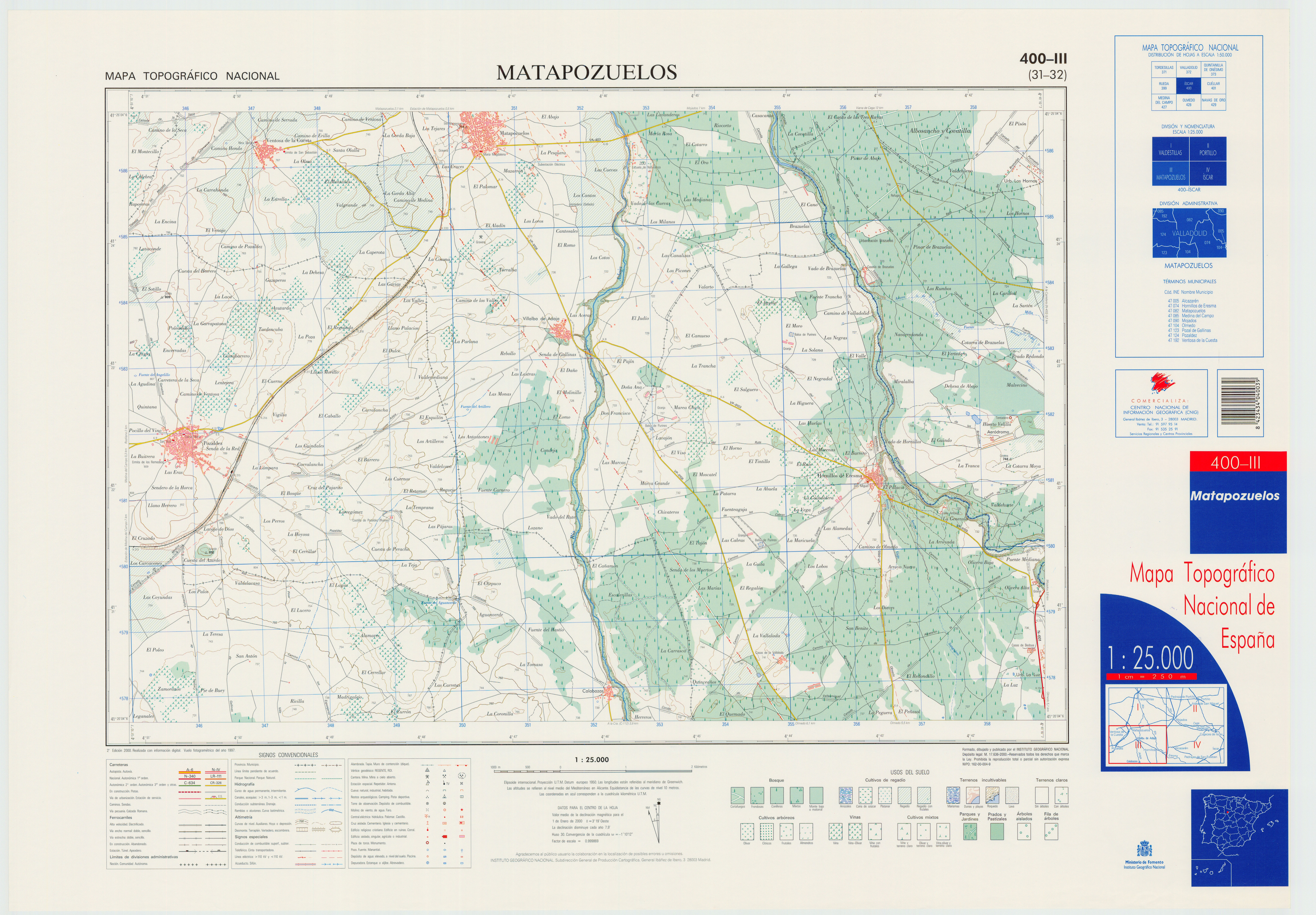 Fragment 0400c3 of the National Topographic Map of Spain in 2000 at a scale of 1:25000 printed and scanned with a resolution of 250 ppi. It shows Matapozuelos.